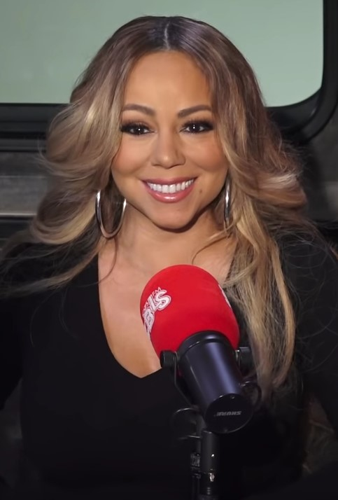 Mariah Carey Talks New Music, Rebirth of Glitter and Listening to WBLS Throughout The Years